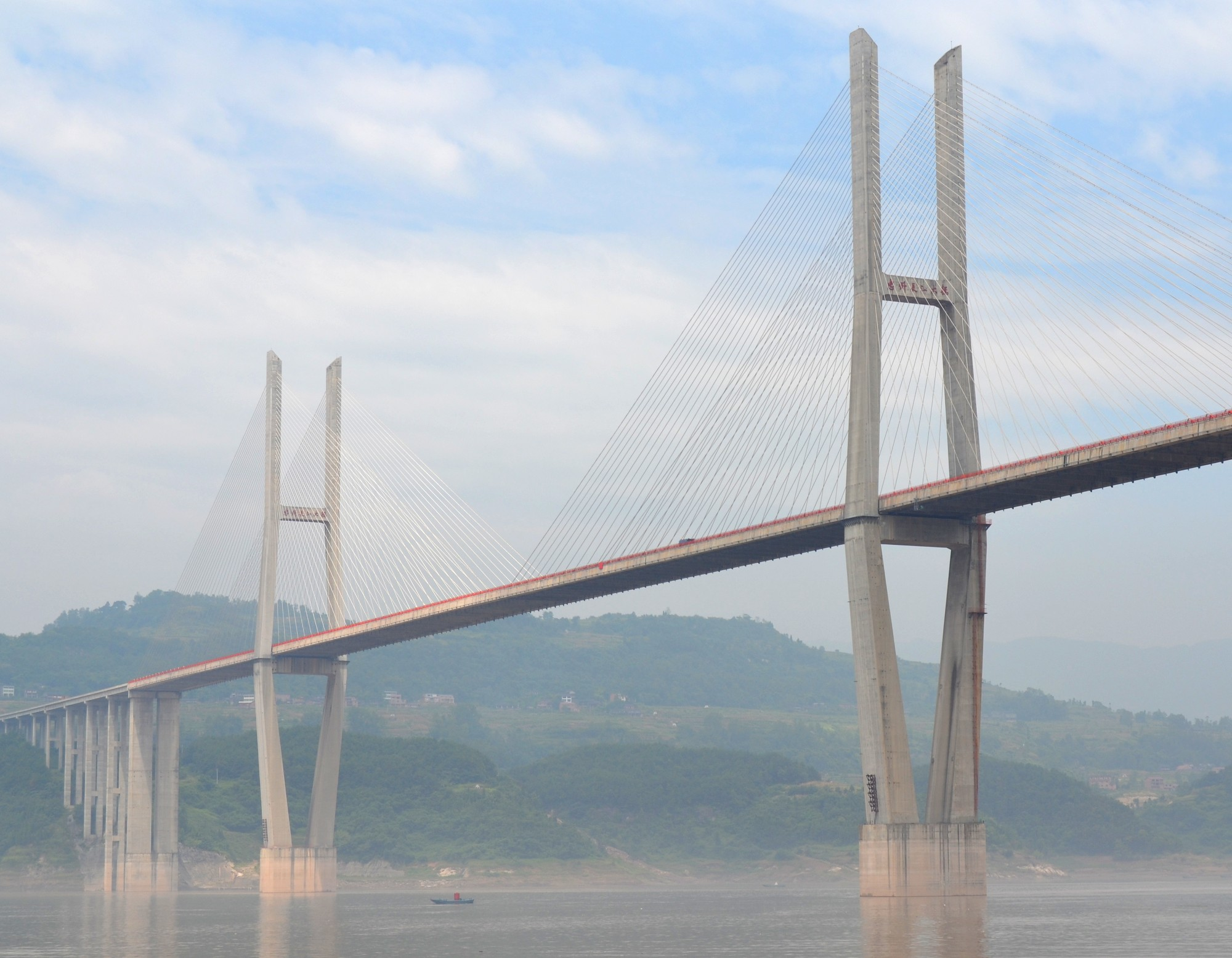 The Zhongxian Changjiang Bridge in Chongqing municipality, China